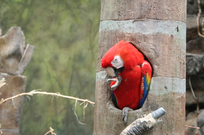 Scarlet Macaw (Ara macao) at -Henry Doorly Zoo, USA.